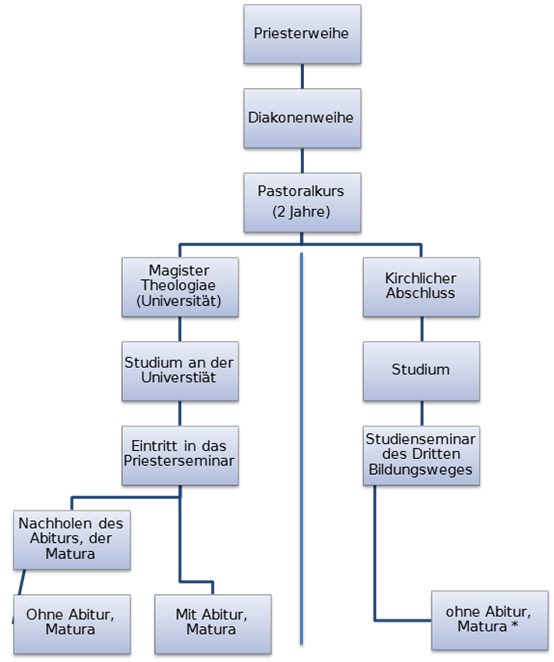 The path to the priesthood of the Roman Catholic Church in Germany